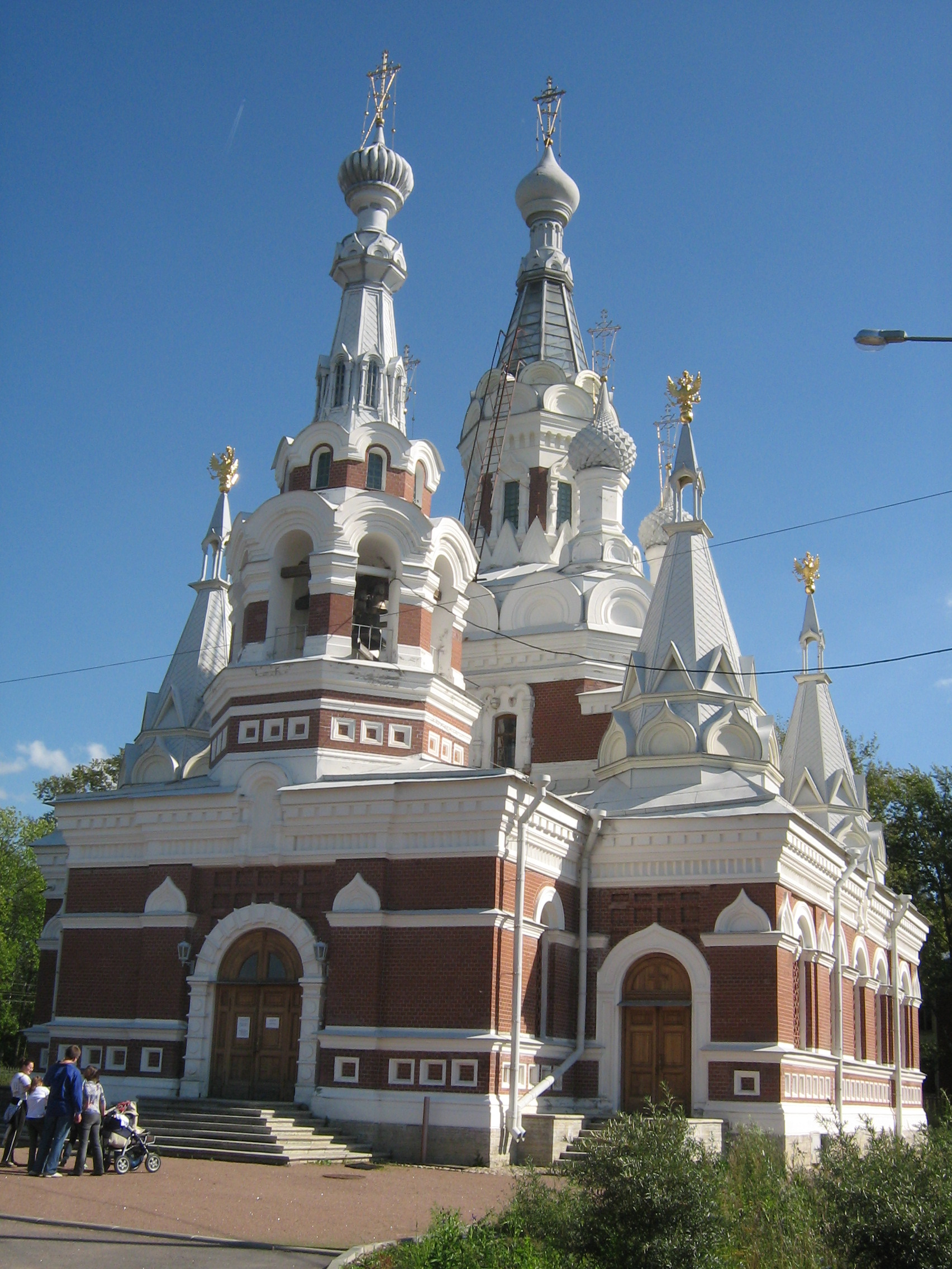 Saint Nicholas' Cathedral in memory of Paul I (Rus. Собор Николая Чудотворца) in Pavlovsk (Russia)